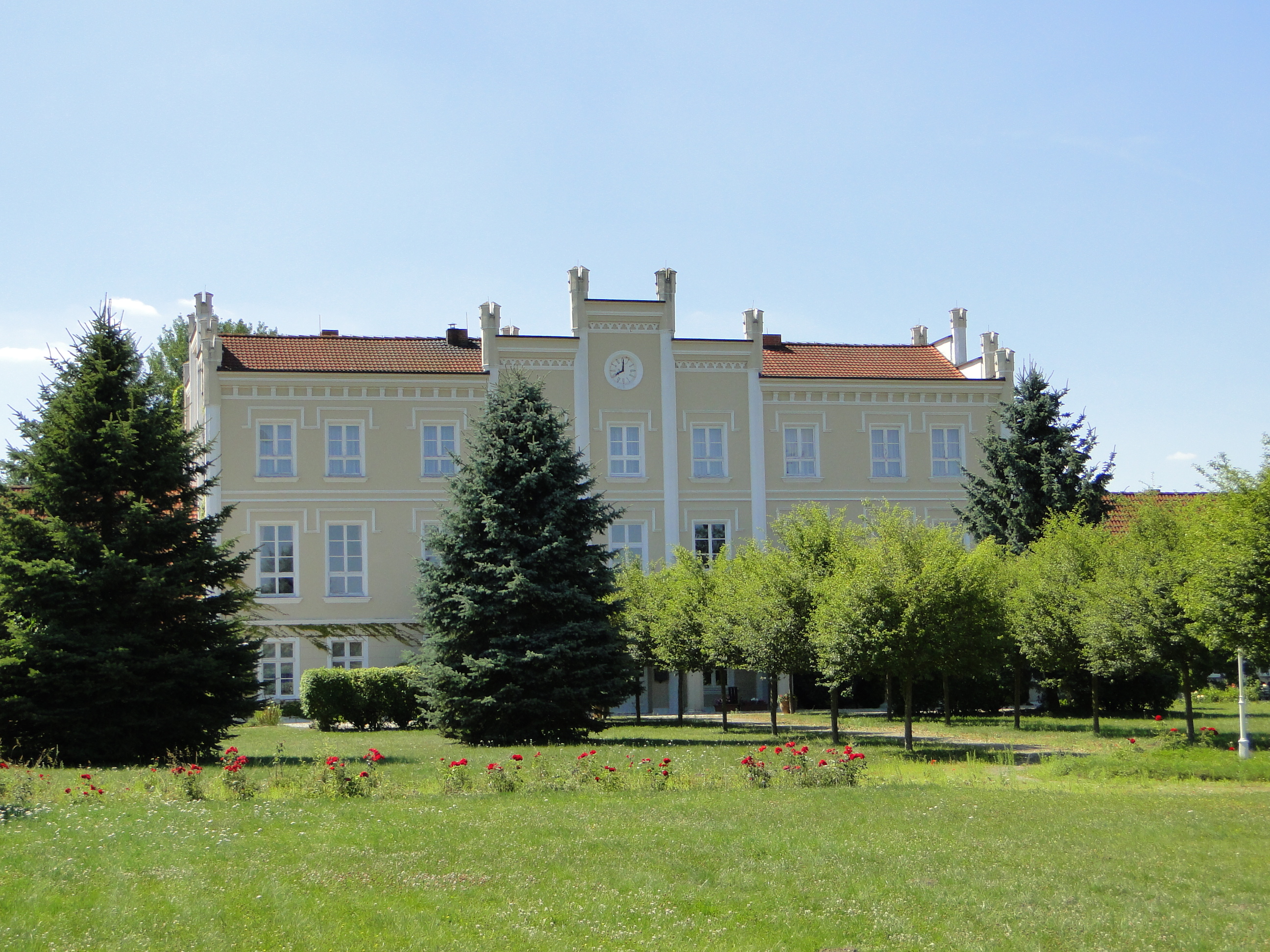 Manor house in Kastorf, district Demmin, Mecklenburg-Vorpommern, Germany